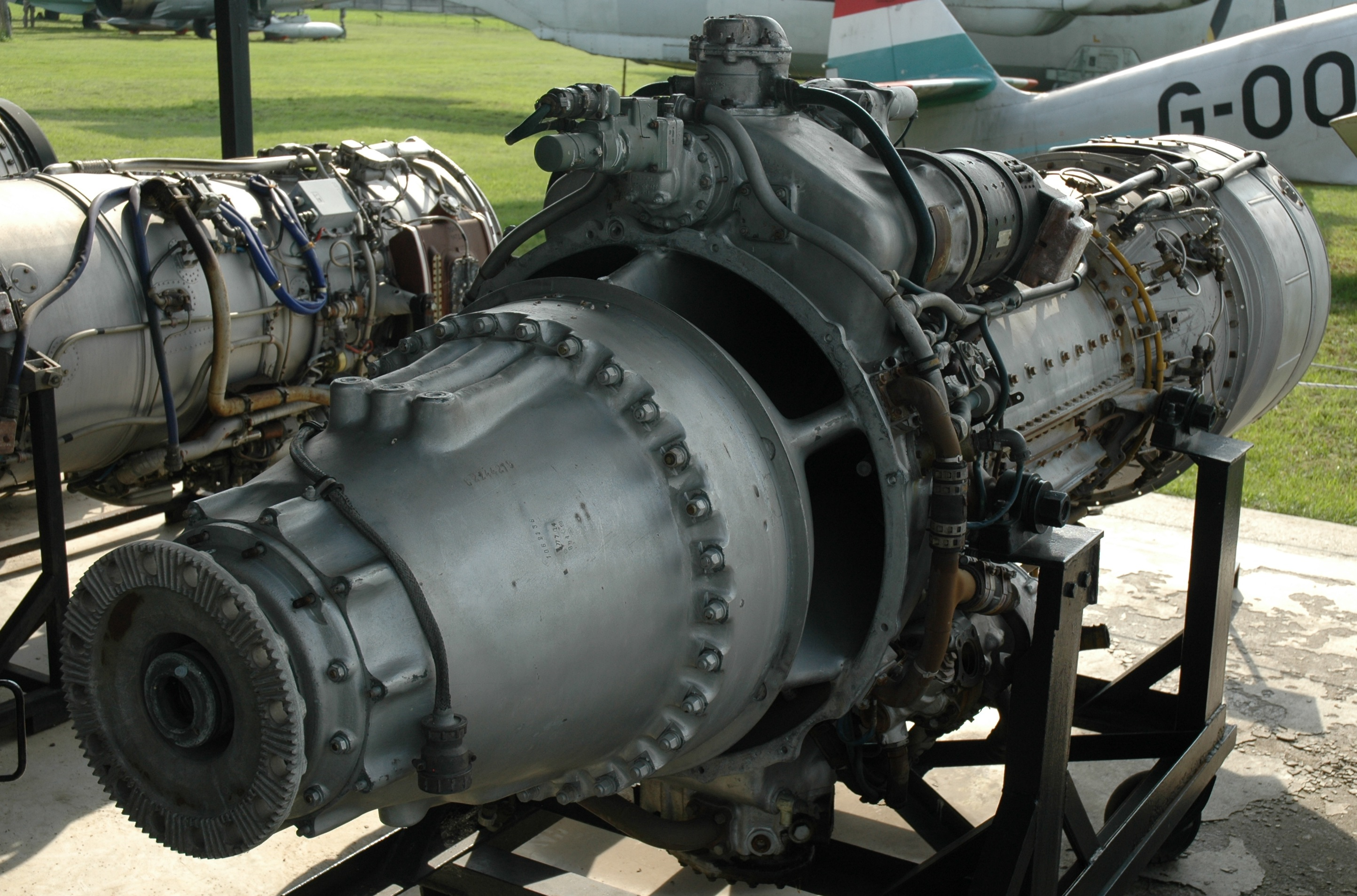 Ivchenko AI-20M Soviet turboprop engine (displayed at the Museum of Hungarian Aviation, Szolnok)